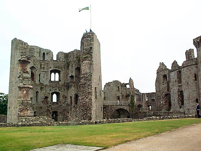 Raglan Castle. The Great Tower.